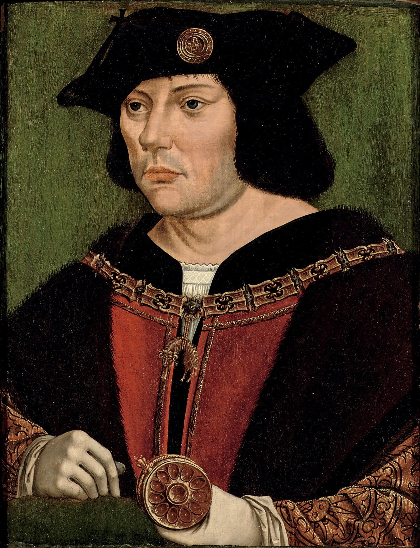 Portrait at bust-length, in a fur-lined coat.